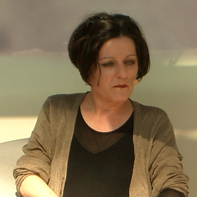 Herta Müller, Nobel laureate in literature 2009, at the Leipziger Buchmesse 2007